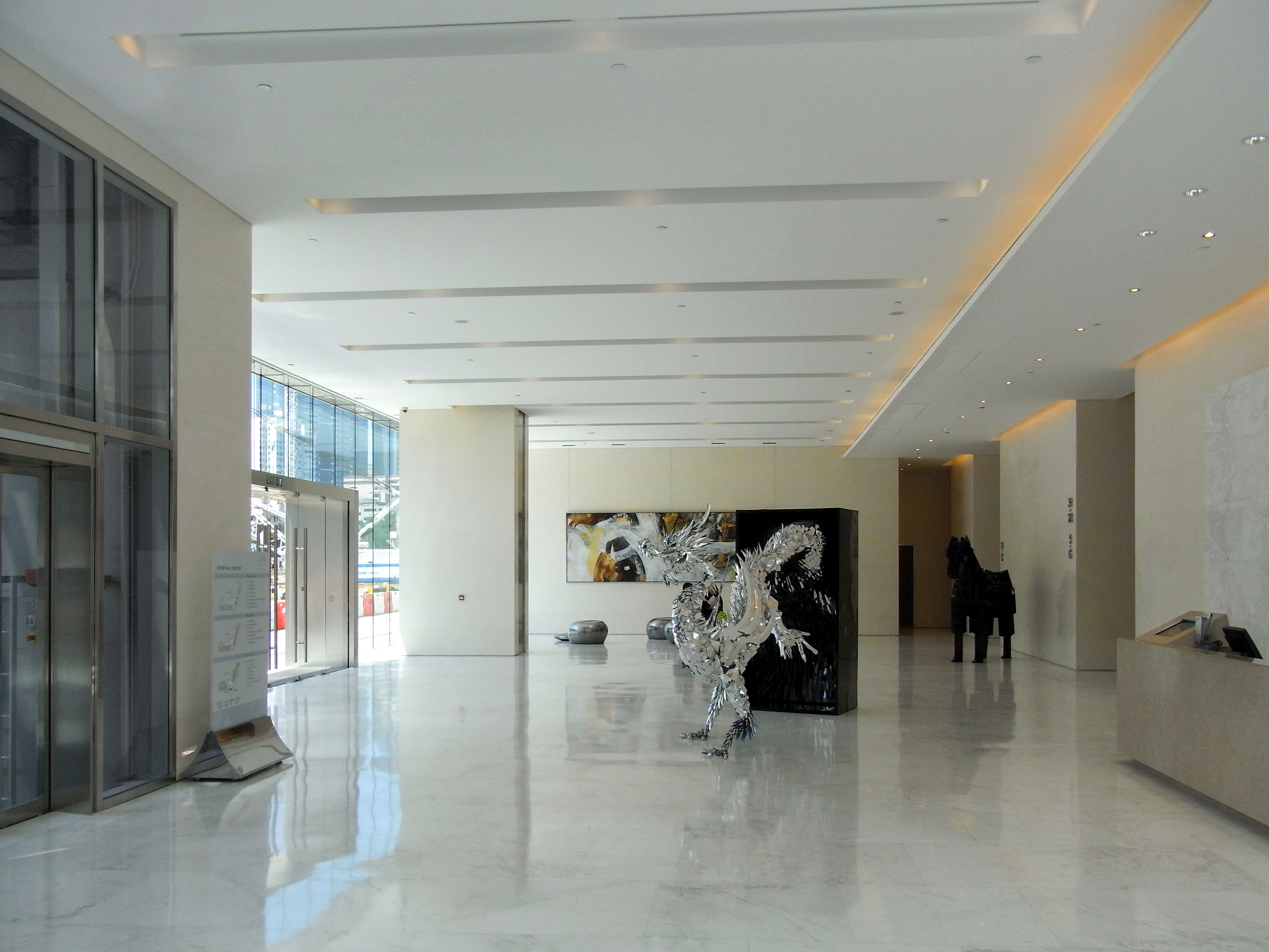 黃竹坑 One Island South, Wong Chuk Hang, Hong Kong